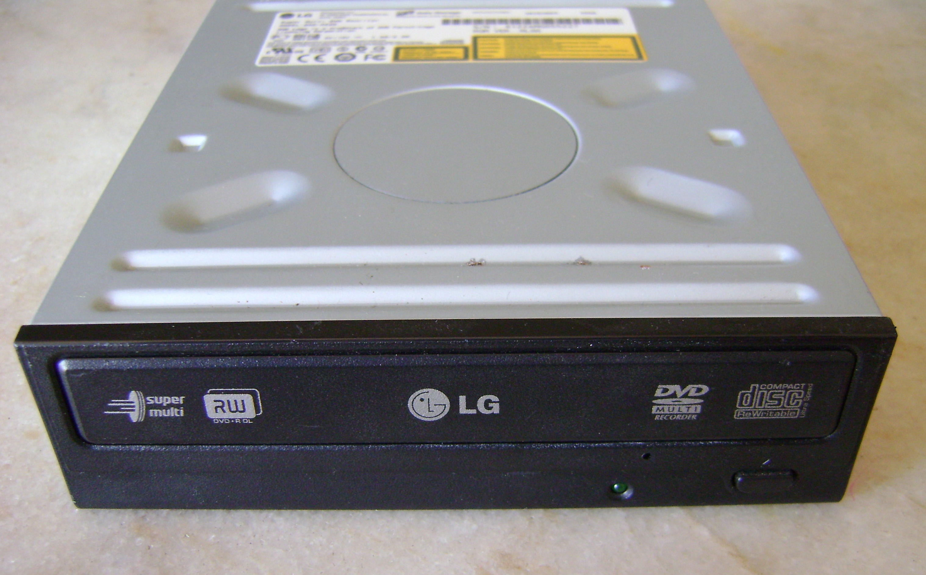 LG Super Multi recorder.